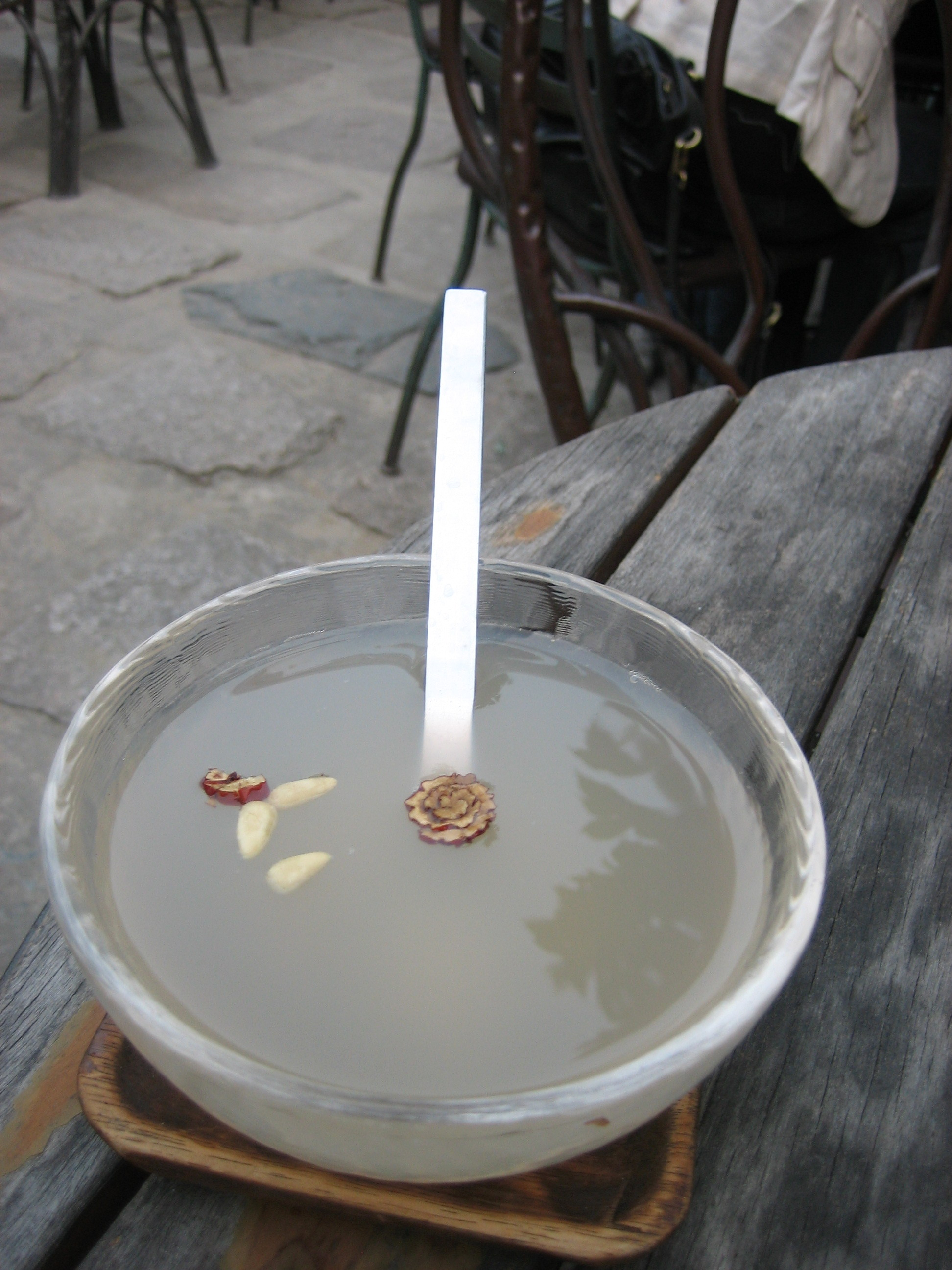 Sikhye (식혜), Korean rice punch.